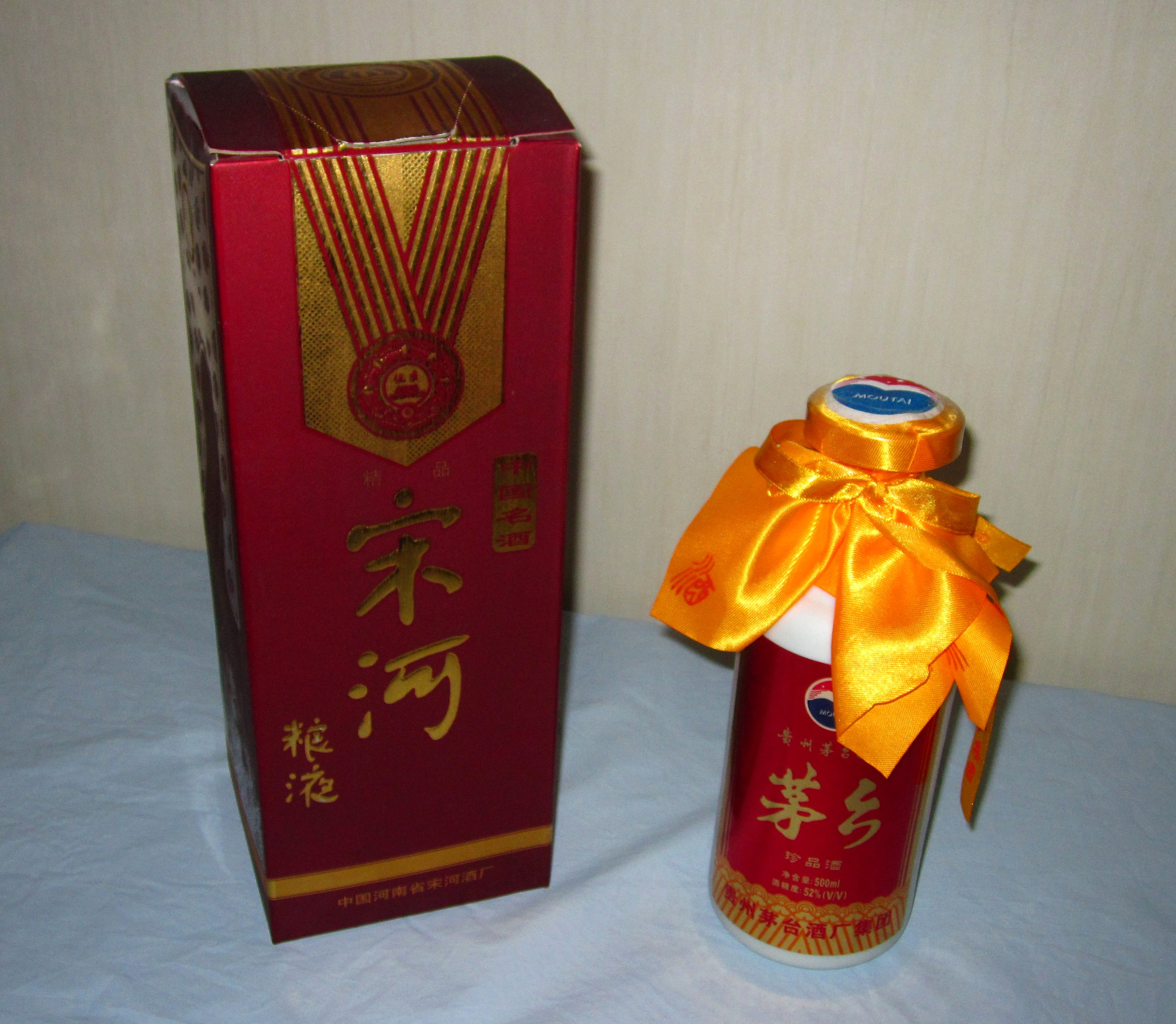 Songhe and Moutai - modern Baijiu brands from China